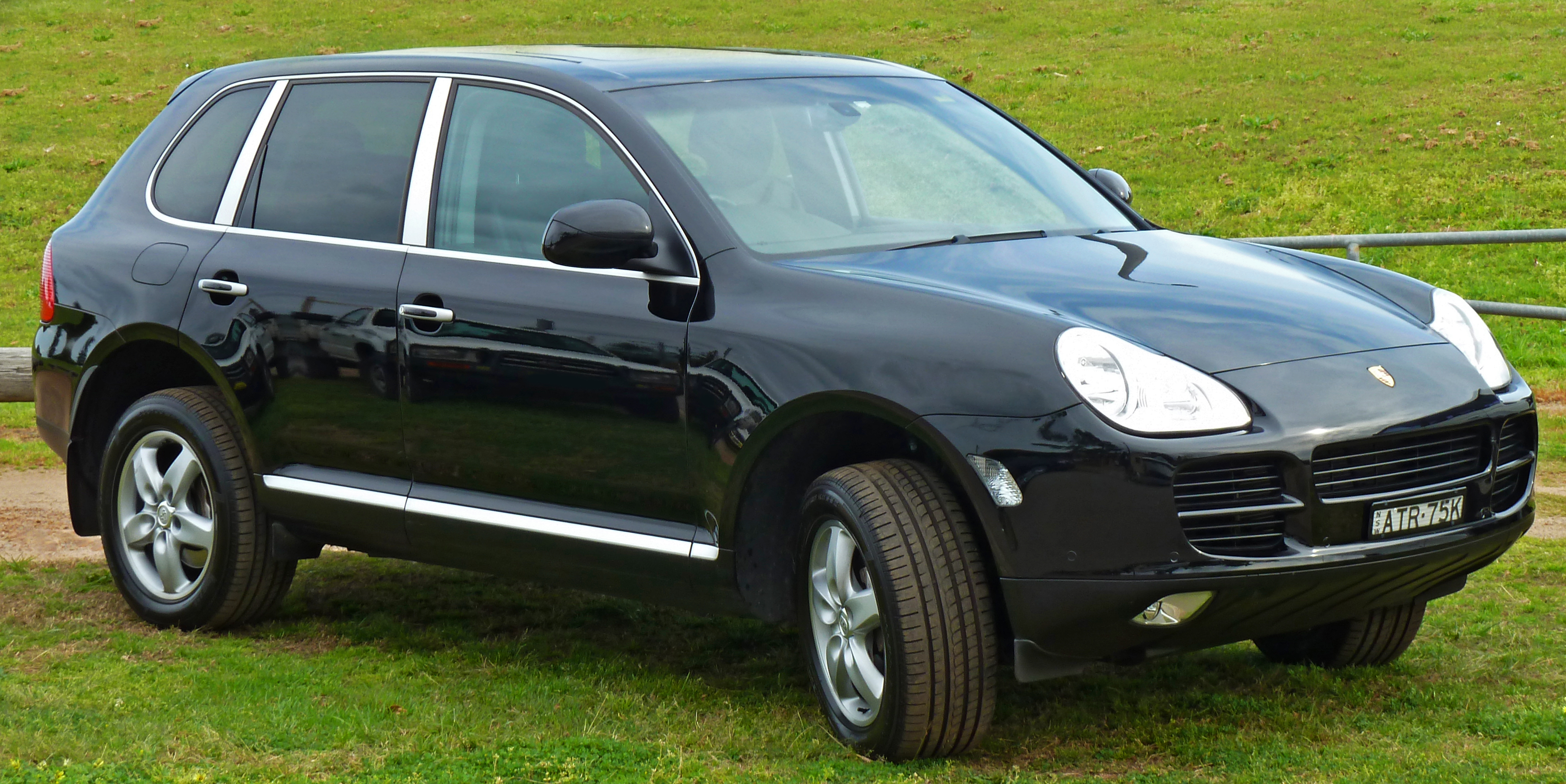 2003–2006 Porsche Cayenne (9PA) S wagon. Photographed in Sans Souci, New South Wales, Australia.